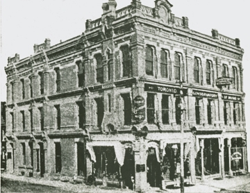 Location of the Toronto Conservatory of Music when it opened in 1886, at the intersection of Yonge and Dundas Streets. Toronto, Canada.